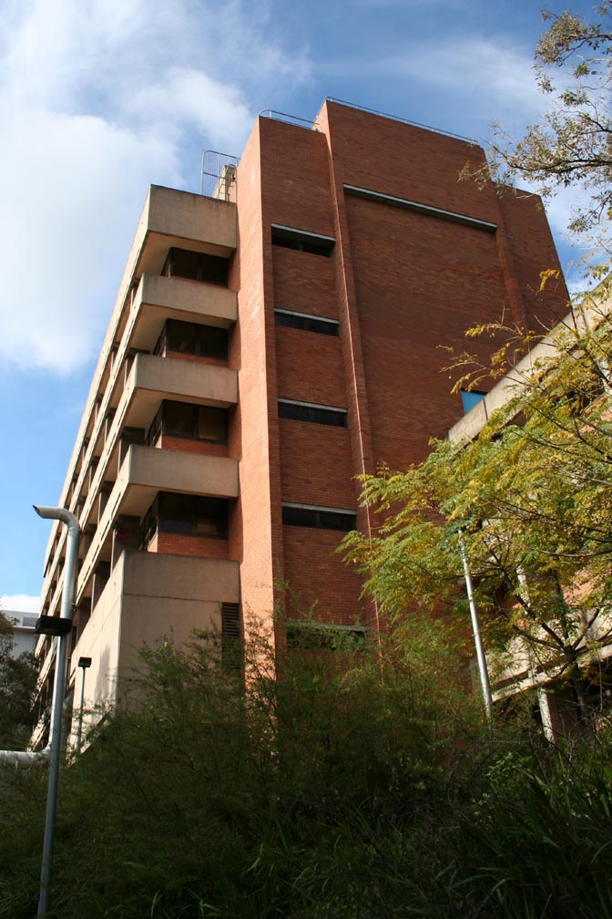 The Medical Sciences Building of the University of Newcastle, taken June 2006, own work.